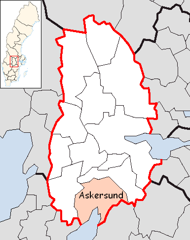 Askersund Municipality in Örebro County Designd by me, based on Image:Örebro County.png